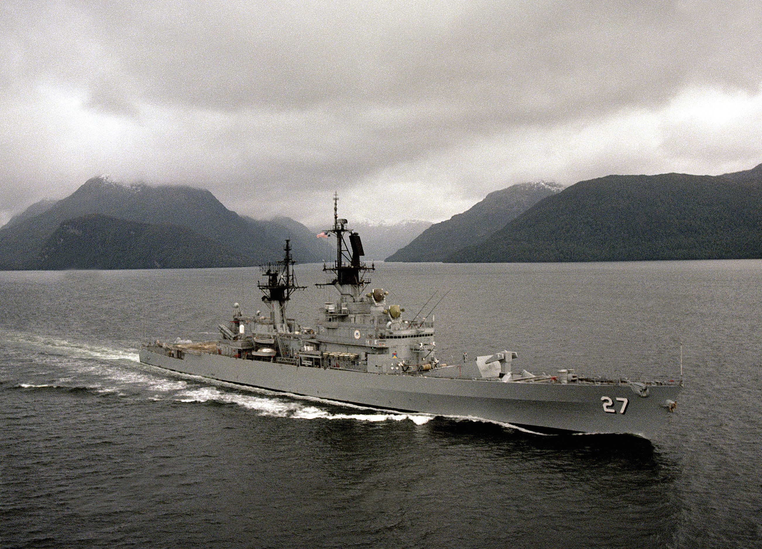 The U.S. Navy guided missile cruiser USS Josephus Daniels (CG-27) underway in the Strait of Magellan on 1 July 1990, during exercise "Unitas XXXI", a combined exercise involving the naval forces of the United States and nine South American nations.